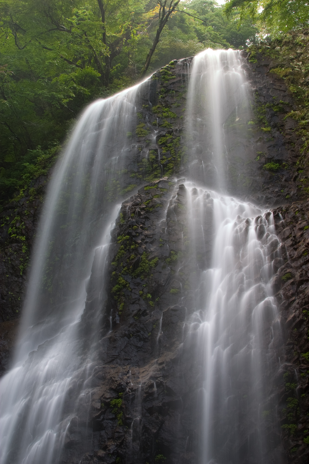 Shirai Falls in Toon, Ehime Prefectures, Japan.